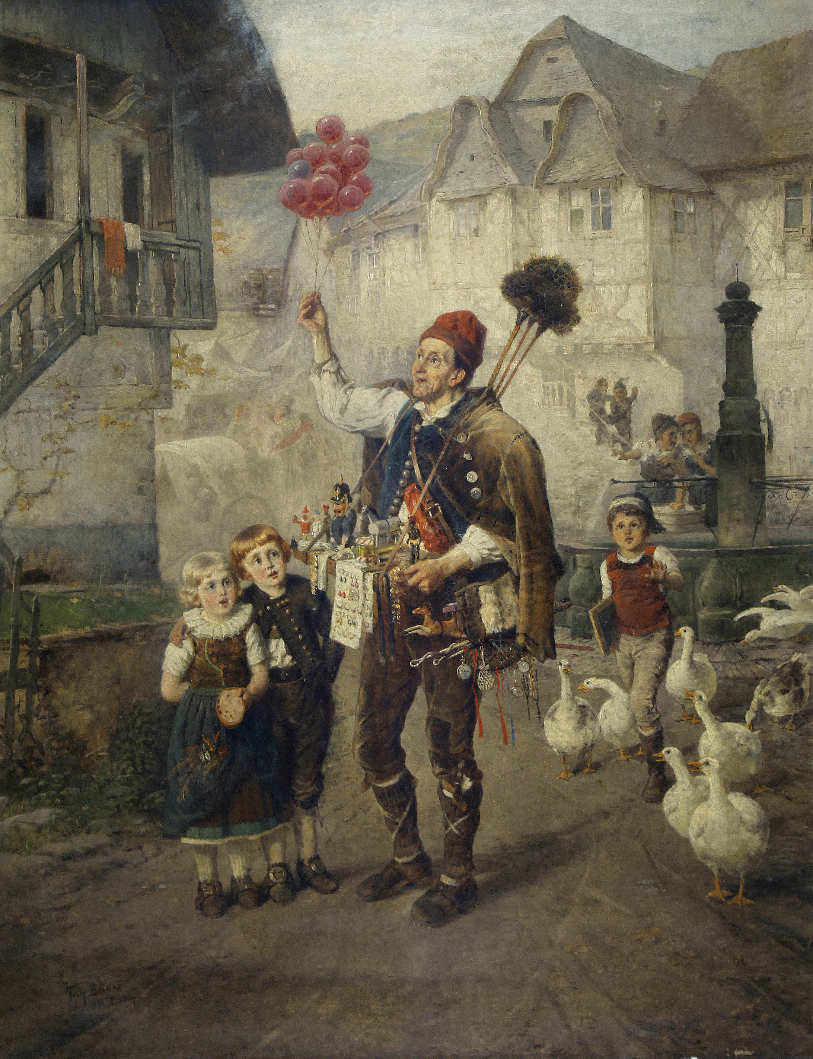 The toymaker of Nuremberg. Signed, dated and inscribed Fritz Beinke./1882.Düsseldorf Oil on canvas, 84 x 65 cm